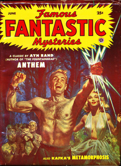 Cover of Famous Fantastic Mysteries, June 1953